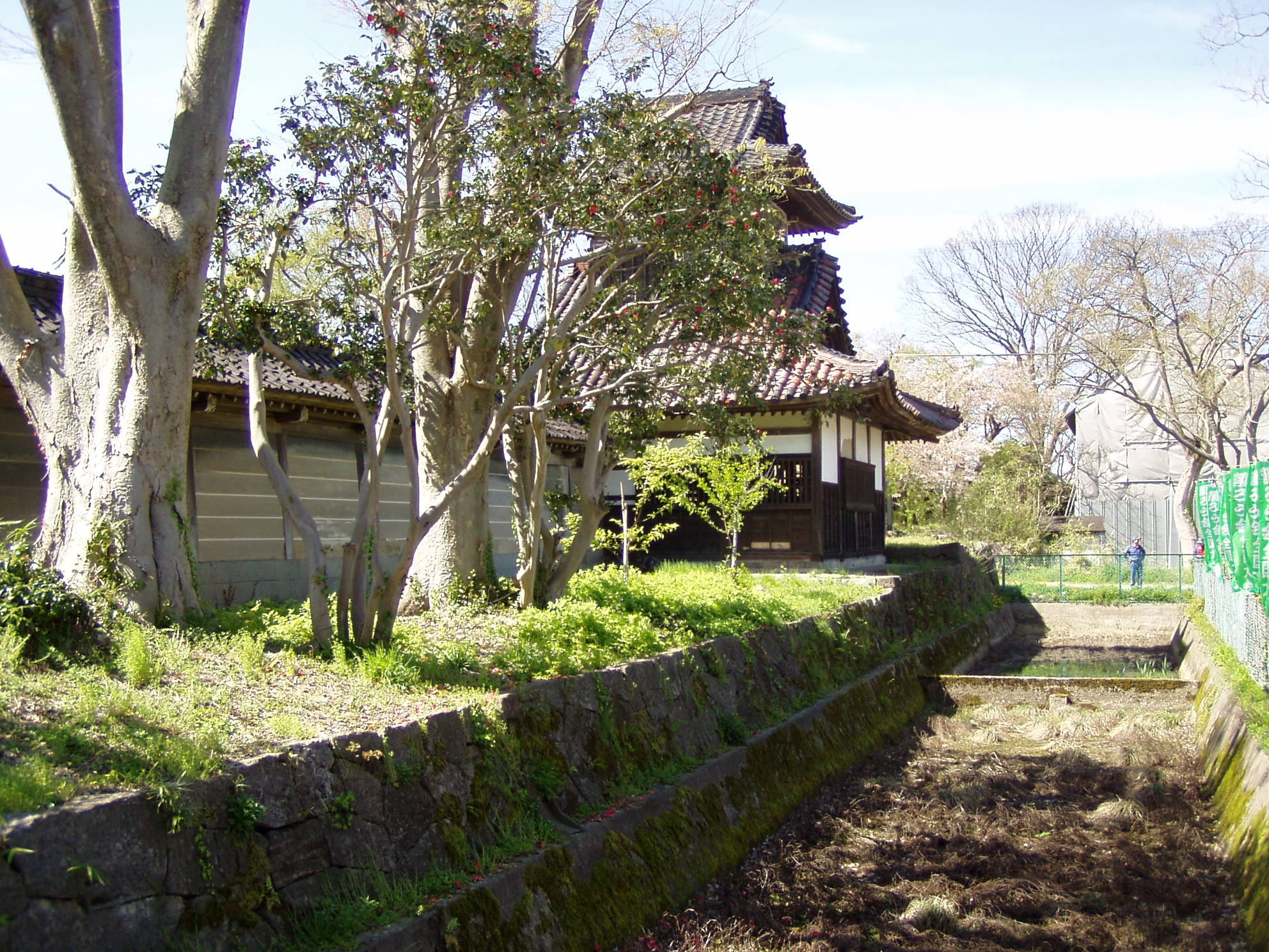 Hurukokuhu Castle(Toyama-Japan)